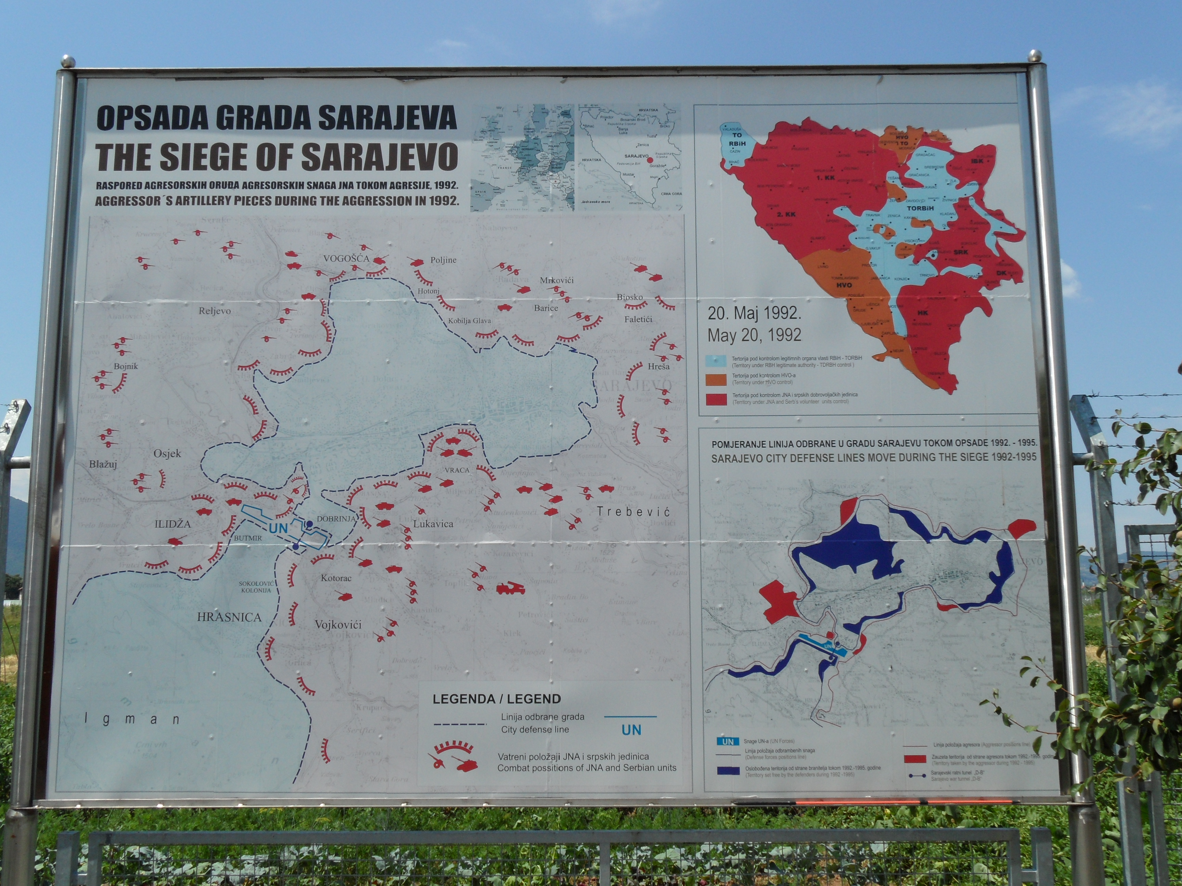 Siege of Sarajevo street map near Sarajevo Tunnel Museum (close to Sarajevo Airport). Map shows Aggressors artillery pieces during the aggression in 1992 / Sarajevo city defense lines move during the siege 1992-1995.